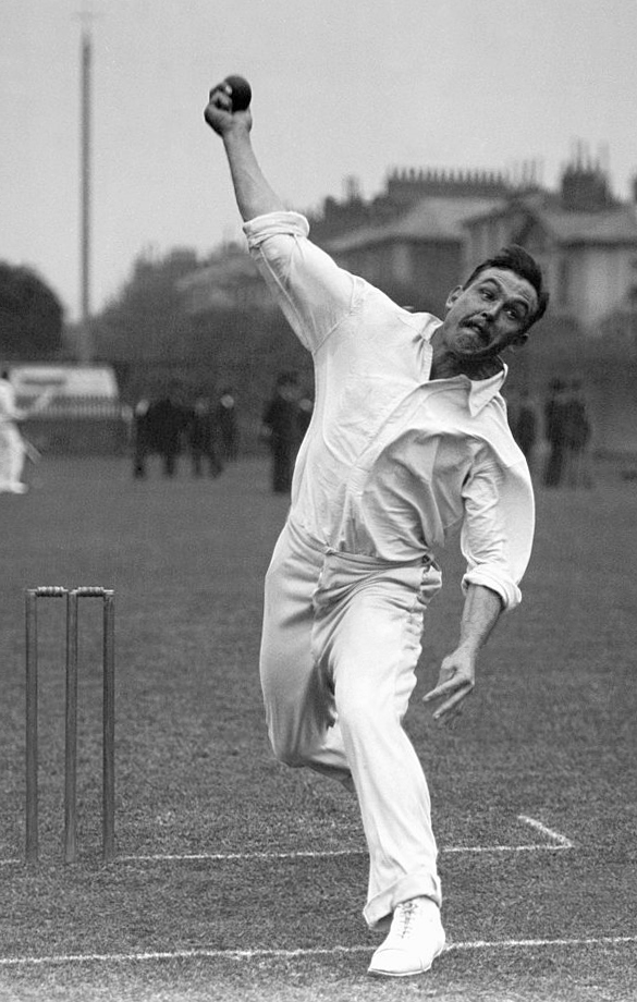 Johannes Jacobus Kotze, Transvaal, Western Province and South Africa, circa 1905.